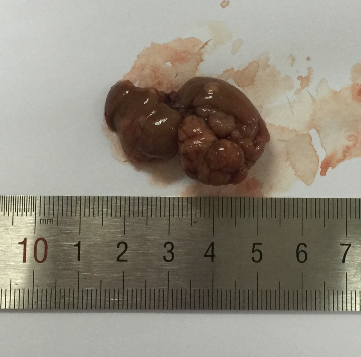 Hepatic cancer tissue from mouse. The cancer tissue, with a length of ~1.5cm, is different with the normal hepatic tissue in shape, texture and color.